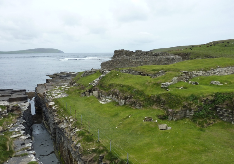 Midhowe Broch, Rousay, Orkney, Scotland - view from east